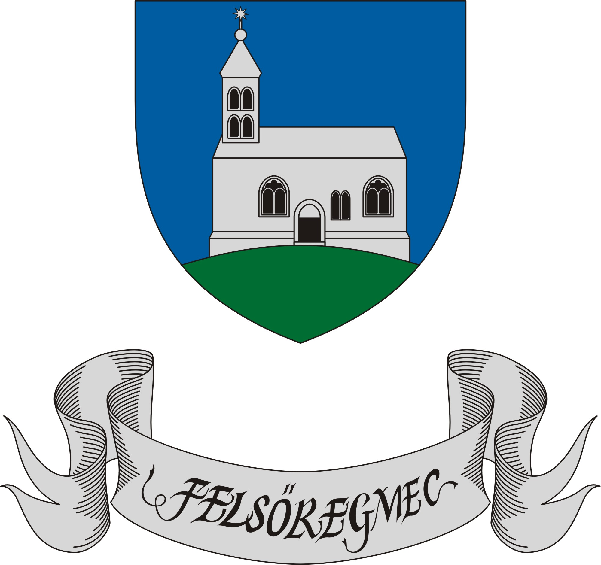 Coat of arms of Felsőregmec, Hungary